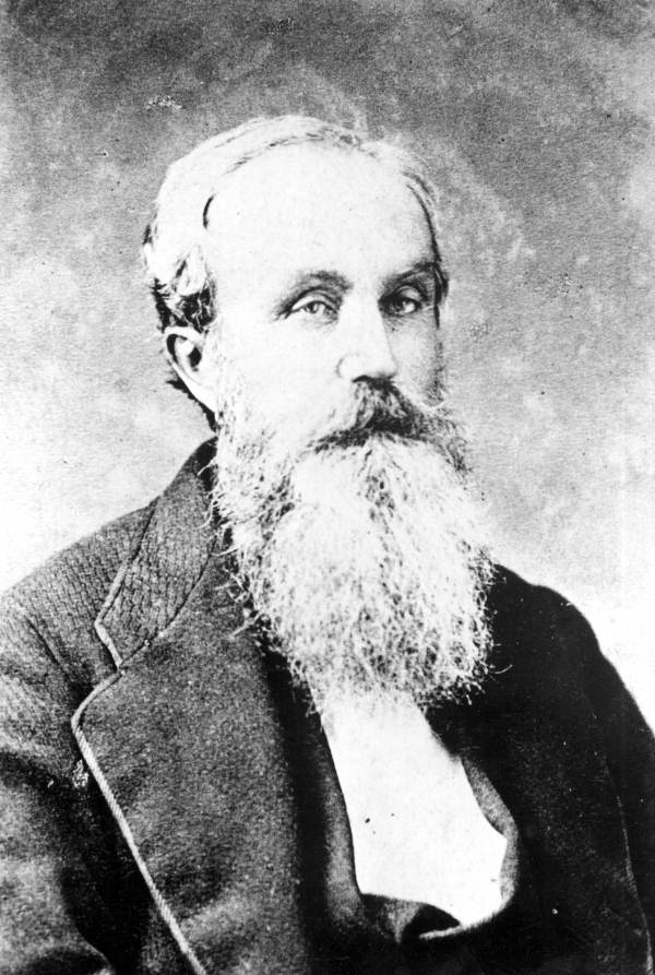 Mills Burnham was the second appointed lighthouse keeper of the Cape Canaveral Light who served from July 1853 till his death on April 17, 1886. He was buried in the family cemetery on Cape Canaveral. (Photo courtesy of the State archives of Florida)